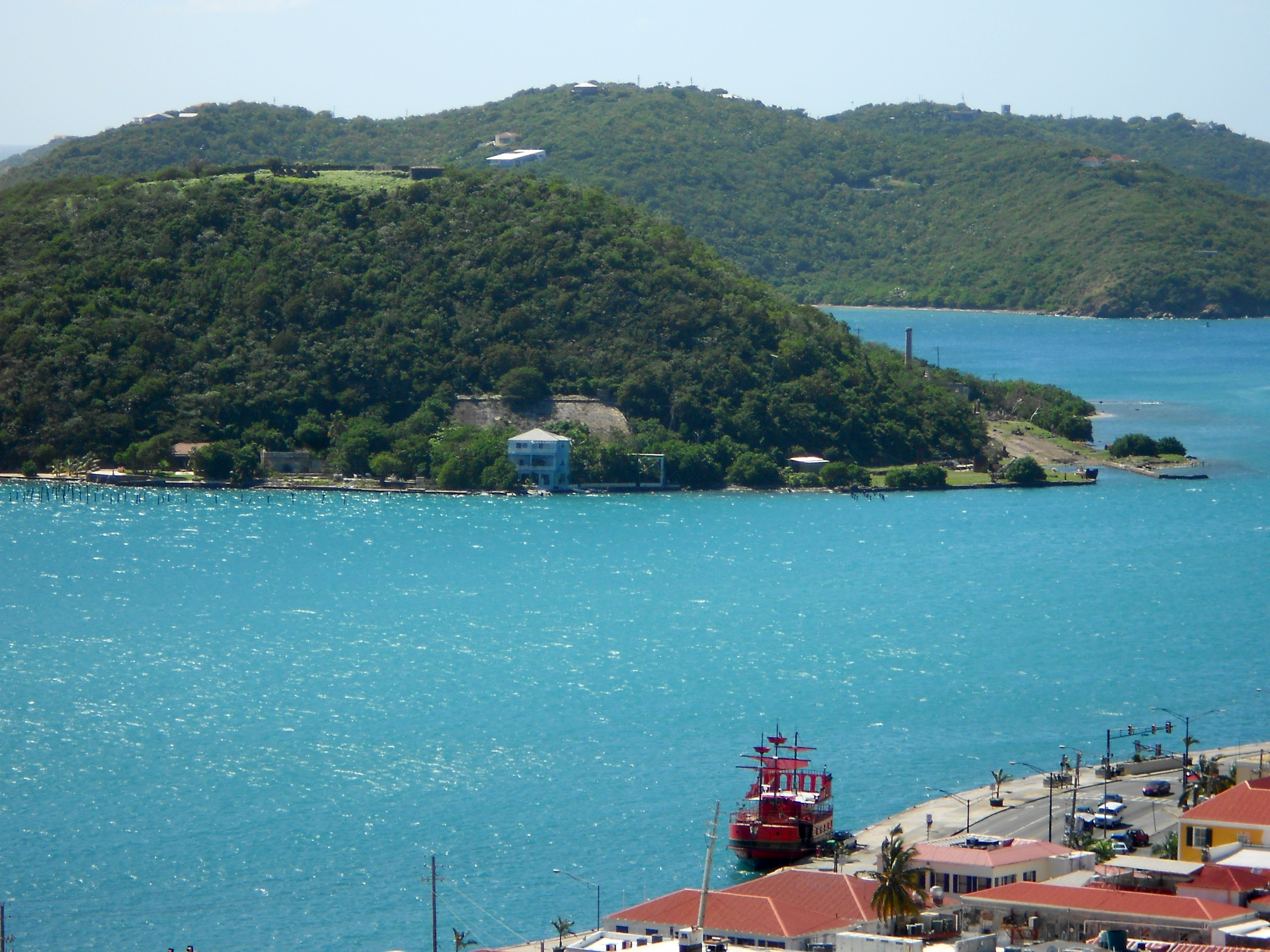 Hassel Island on the NRHP since July 19, 1976. Just south of Charlotte Amalie in Saint Thomas Harbor, US Virgin Islands.